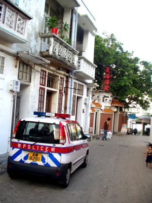 By Tsui SIng Yan Eric (rseric)